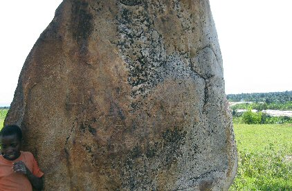 The engraving on the face of this stone can just be seen to mark the place where journalist, Henry Stanley, met explorer and missionary, Dr David Livingtone. This stone is at Mugere, south of Bujumbura, Burundi and marks the spot where some Burundians purportd that the two men had their famous meeting. However, it was a place where the two explorers visited together shortly after their famous meeting.